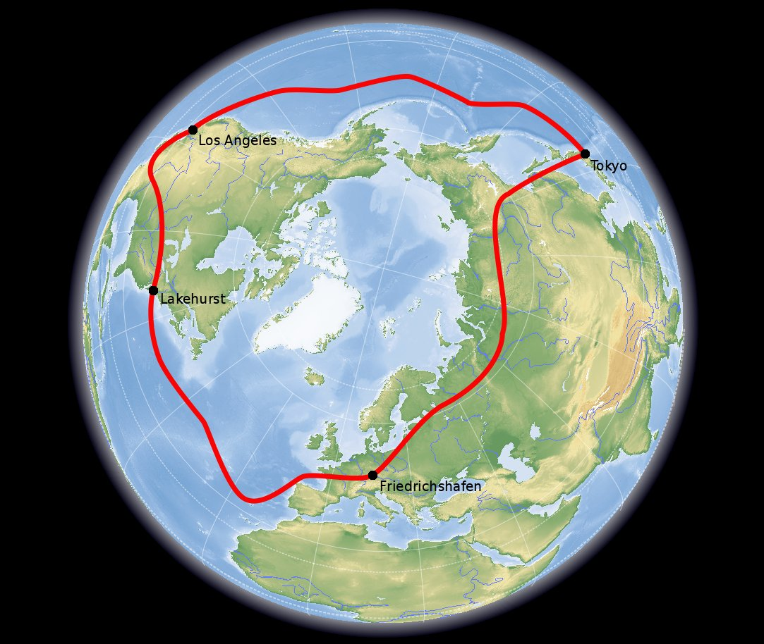 Map showing the course flown by LZ 129 Graf Zeppelin on her 1929 Weltrundfahrt ("Round-the-world" trip), after a map in Max Geisenheyner's Mit Graf Zeppelin um die Welt ("Around the World with the Graf Zeppelin") (Frankfurt. Societäts-Druckerei, 1929)